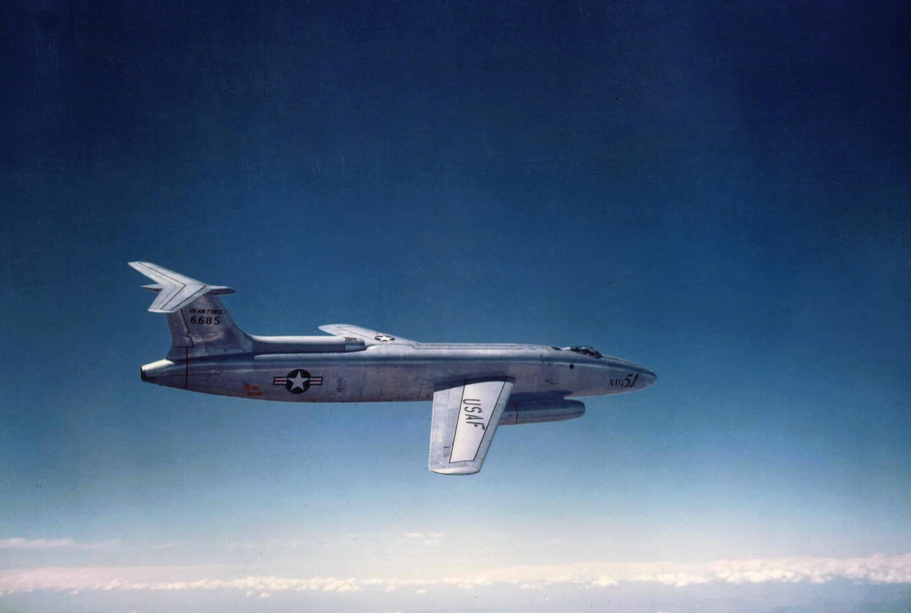 The Martin XB-51 was an unusual ground-attack plane, and one of the most highly advanced aircraft at the time of its first flight in 1949. Two jet engines were carried in pods near the nose and a third was buried aft under the tail. The pilot could vary the thin wing's angle of incidence in the air, making takeoffs and landings easier. The variable-incidence wing allowed a very long fuselage which carried two bomb bays, all fuel tanks, and the bicycle-style landing gear. Spoilers on each wing replaced conventional ailerons, allowing the use of full-span flaps for safer landings. The XB-51 was fast, maneuverable, and delightful to fly, but it lost an acquisition competition to the British-designed B-57 Canberra. The sister ship to the plane in the photo was destroyed in a crash on the dry lake bed in May 1952.